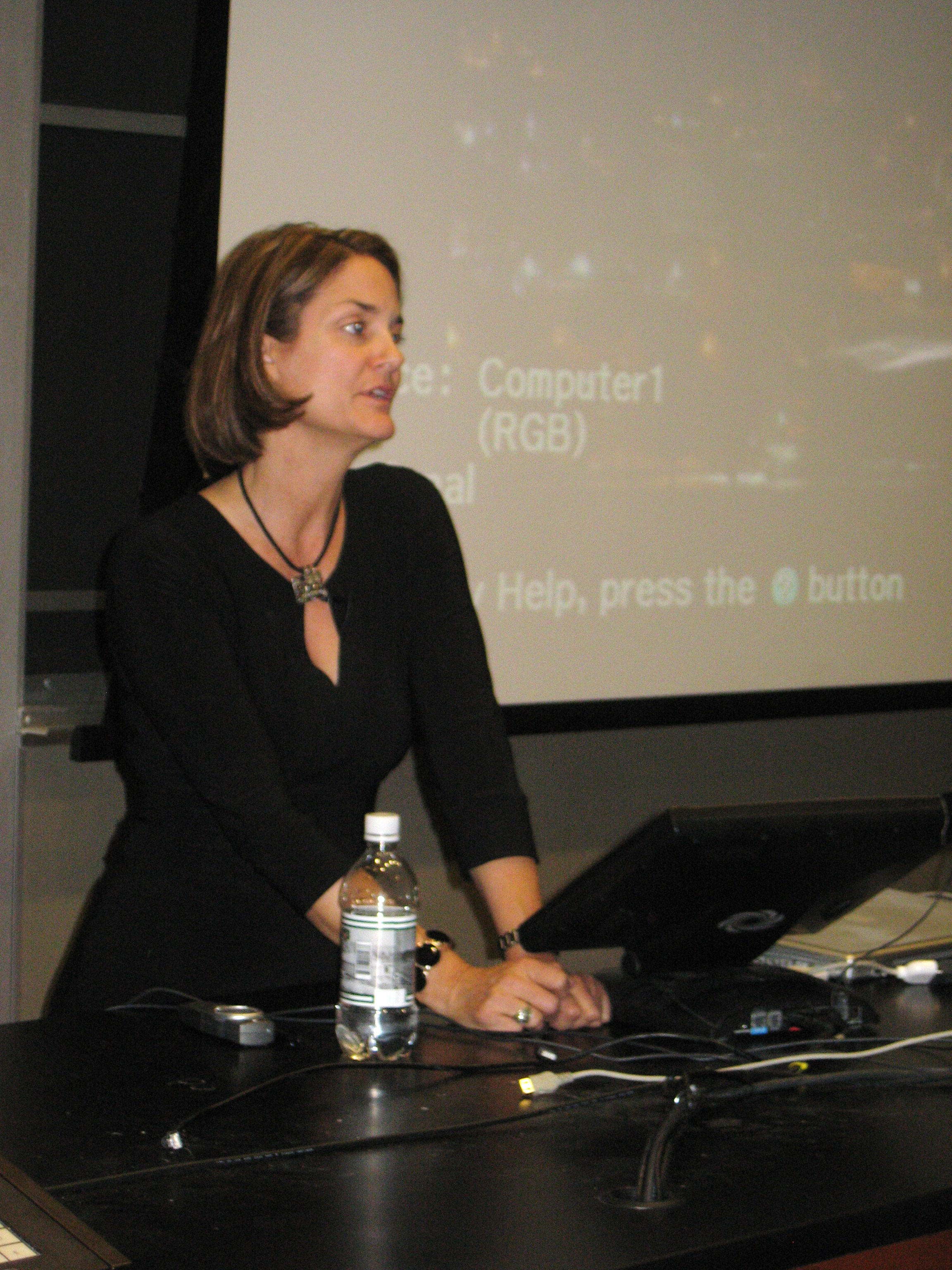 Photojournalist Carolyn Cole speaks at Ohio University (Athens, USA)